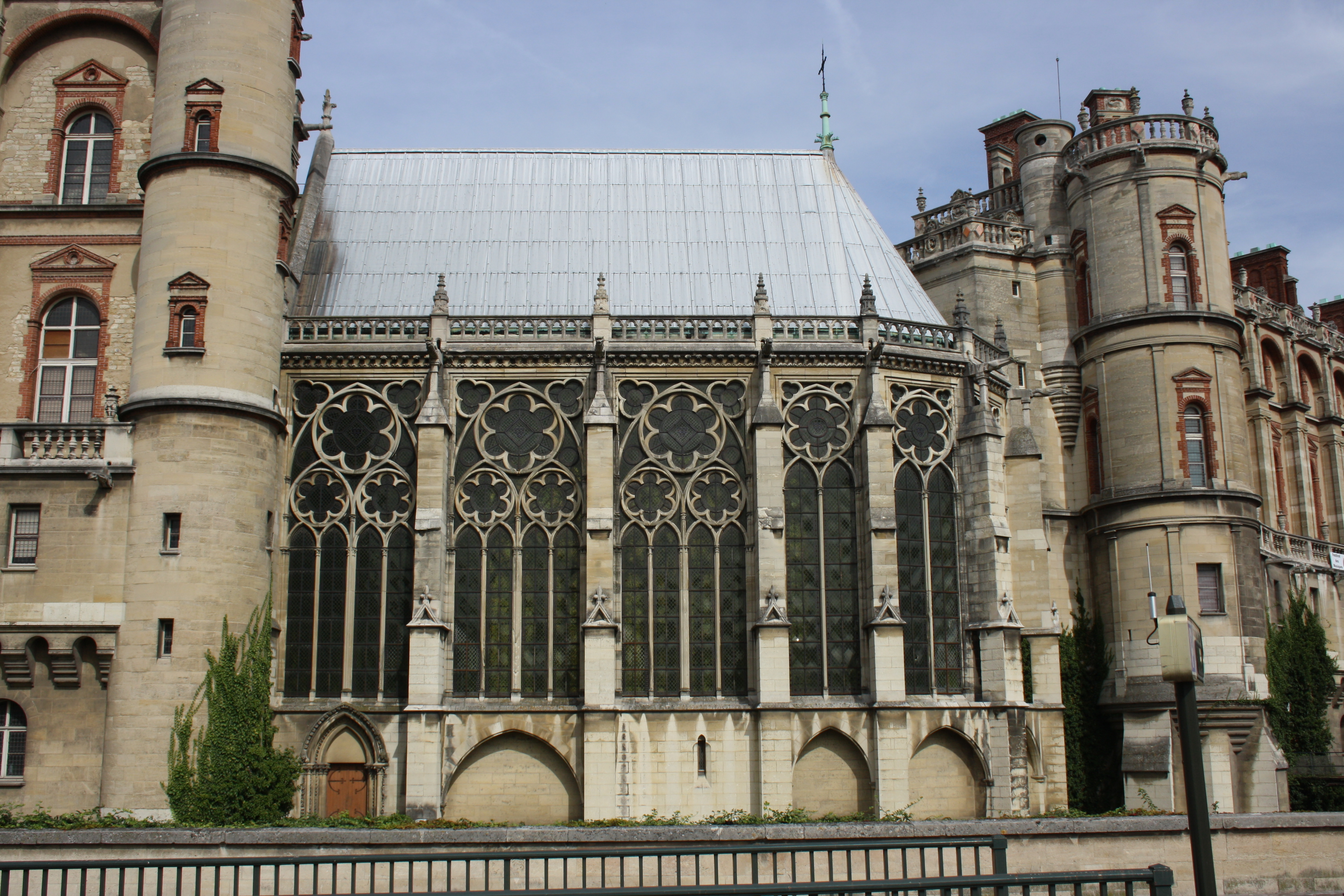 Château Vieux (old castle in french) located Charles de Gaulle place in Saint-Germain-en-Laye, France. House of the National Archaeological Museum (France).